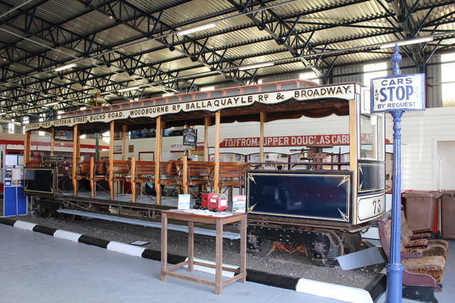 Tramcar 73